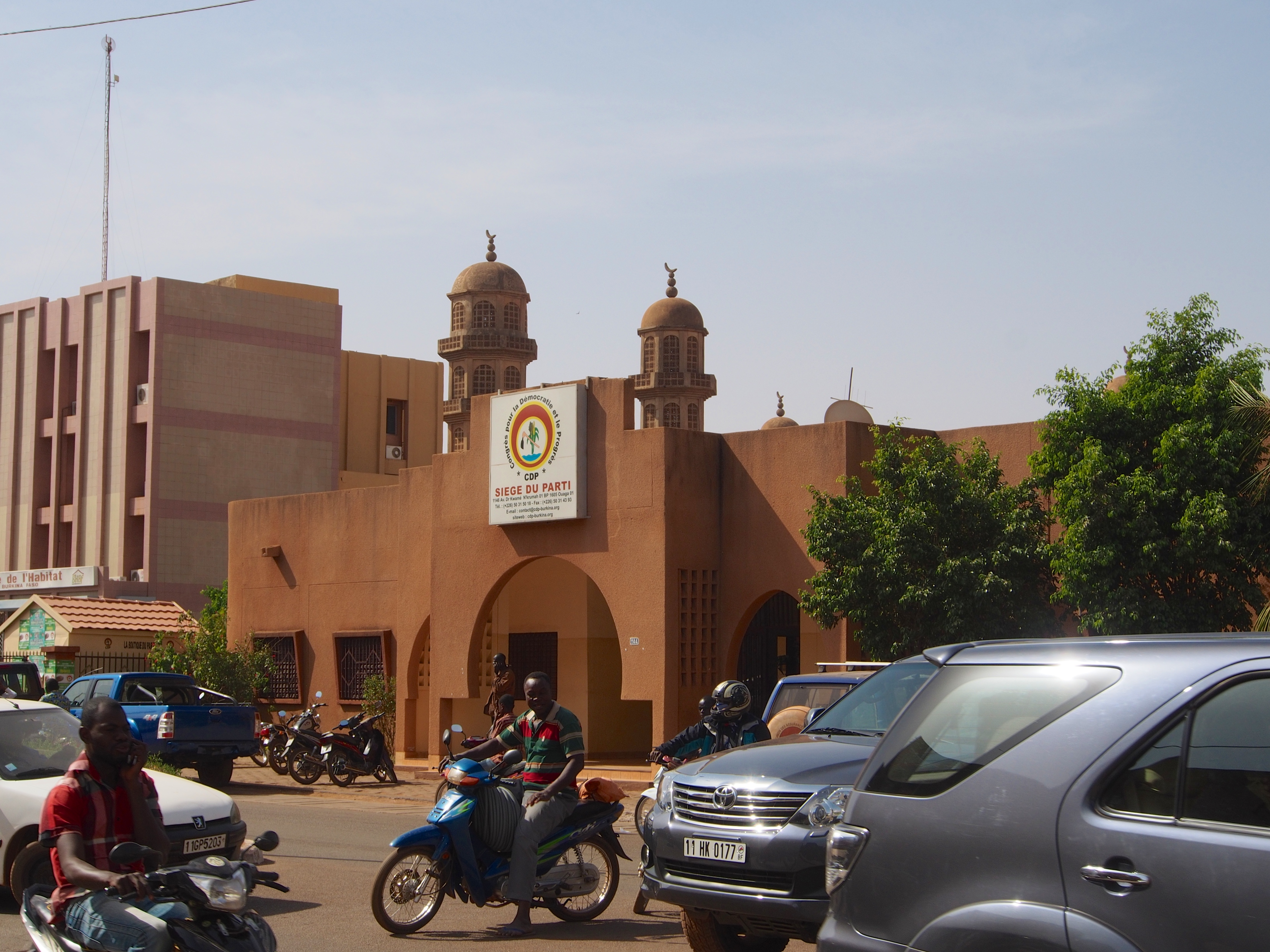 Headquarter of the CDP in Ouagadougou, governmental party of Burkina FasoFurlan: Siège du CDP à Ouagadougou, parti gouvernemental du Burkina Faso